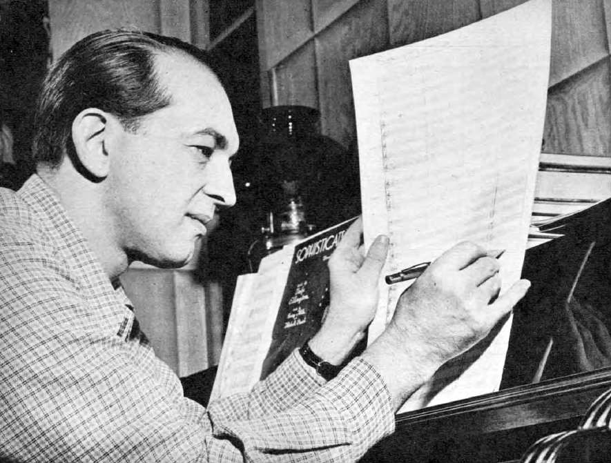 Photo of Percy Faith at work on an arrangement or composition.